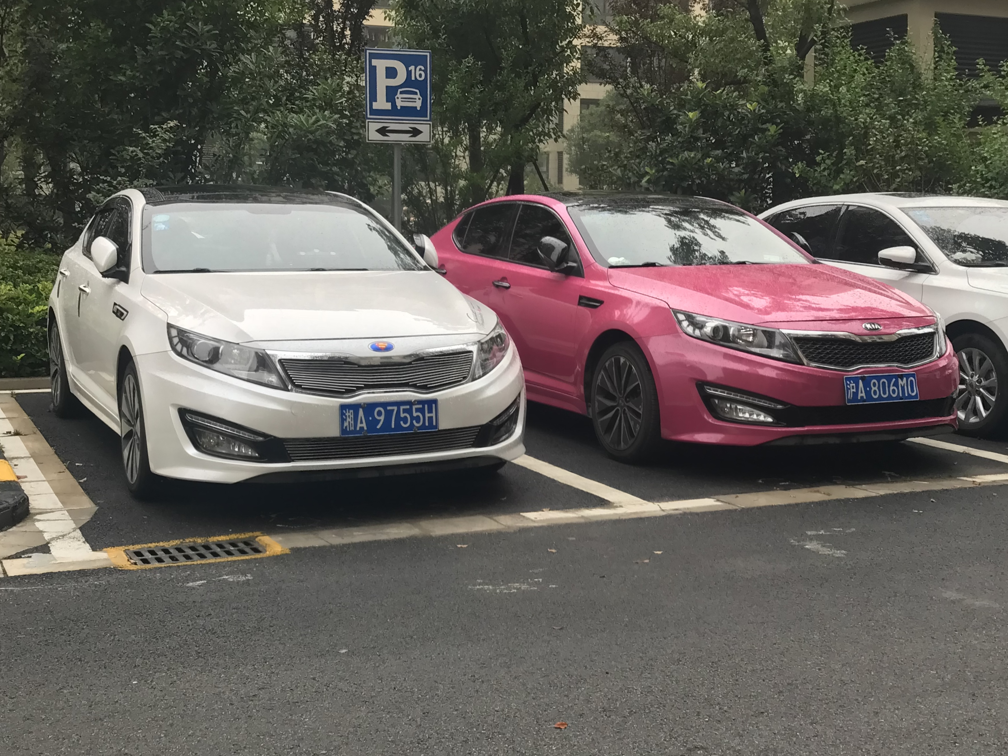 Kia K5 sedans